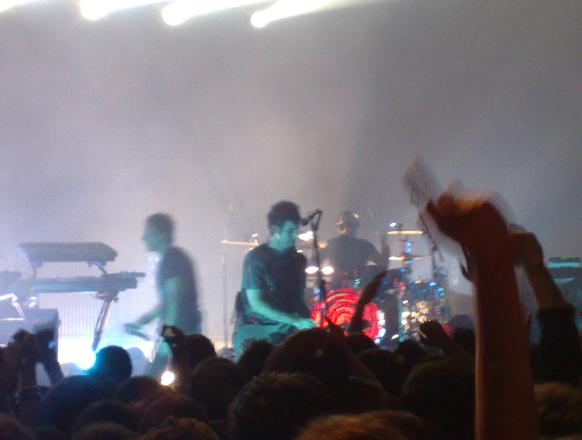 Rob Swire, lead singer and producer of Pendulum at Venue Cymru in Llandudno, Wales.